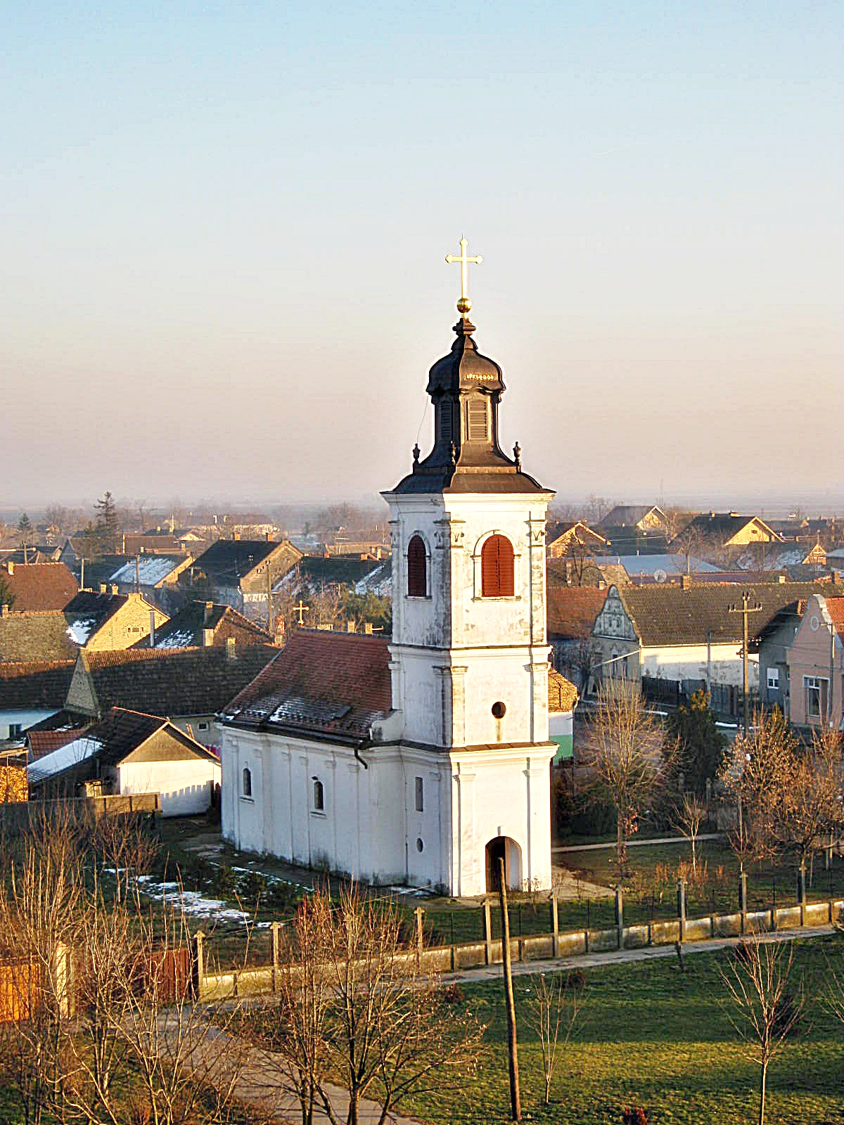 Serbian Orthodox Church (view from the Slovak Evangelical Church Tower) in Kisač